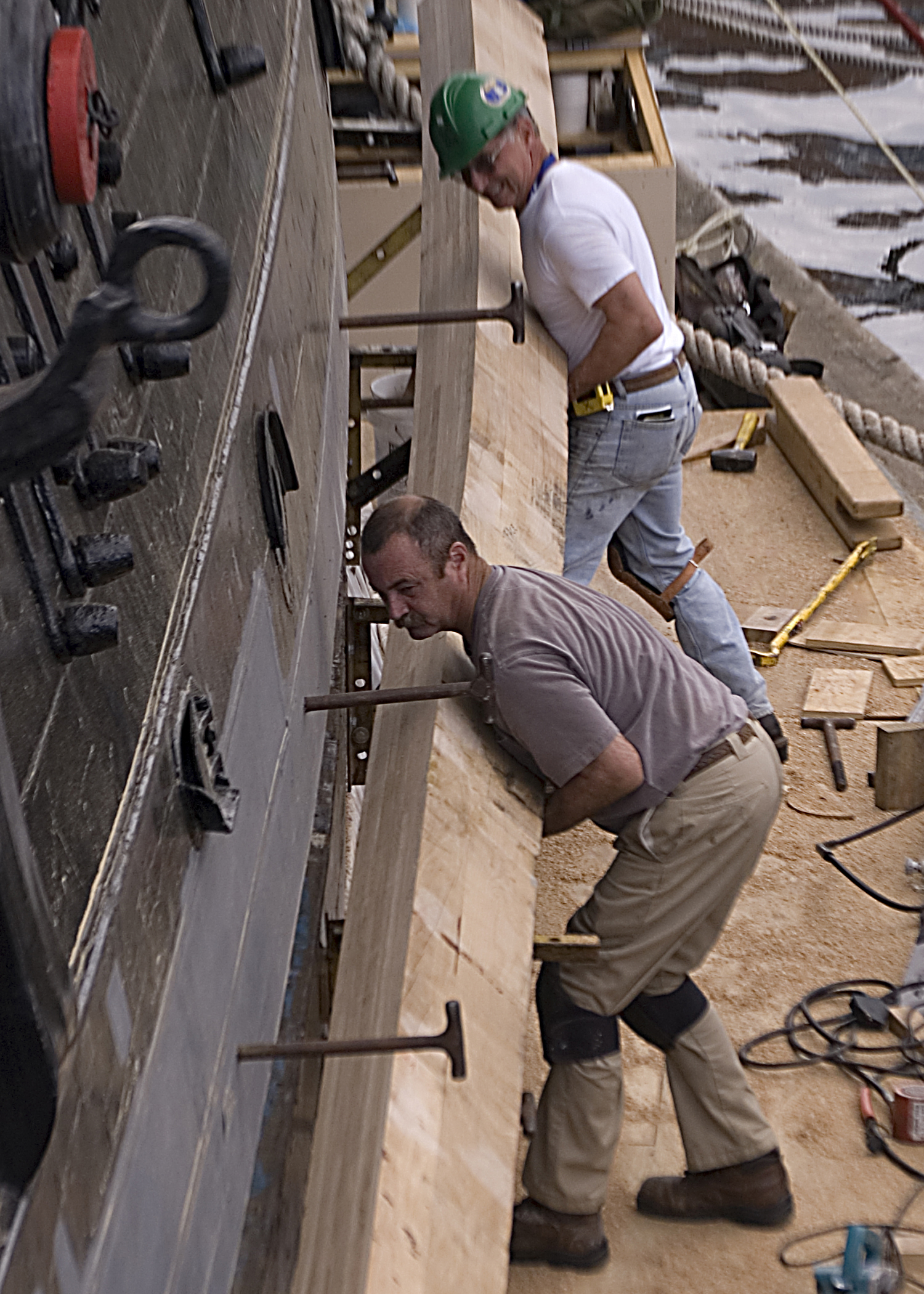 BOSTON, Mass. (May 13, 2009) Ship restorers Chris Hanlon, bottom, and Paul Chiasson line up a new plank of white oak along USS Constitution's starboard side at the Naval History and Heritage Command Detachment. Restoration to Old Ironsides's hull, masts and main deck are part of a $7 million overhaul scheduled for completion by 2011. Constitution is at 211 years old ‚Äö is the oldest commissioned warship afloat in the world. It is manned by more than 70 active duty U.S. Navy Sailors, and visited by nearly half a million tourists annually. (U.S. Navy photo by Mass Communication Specialist Petty Officer 3rd Class Anna Kiner/Released)